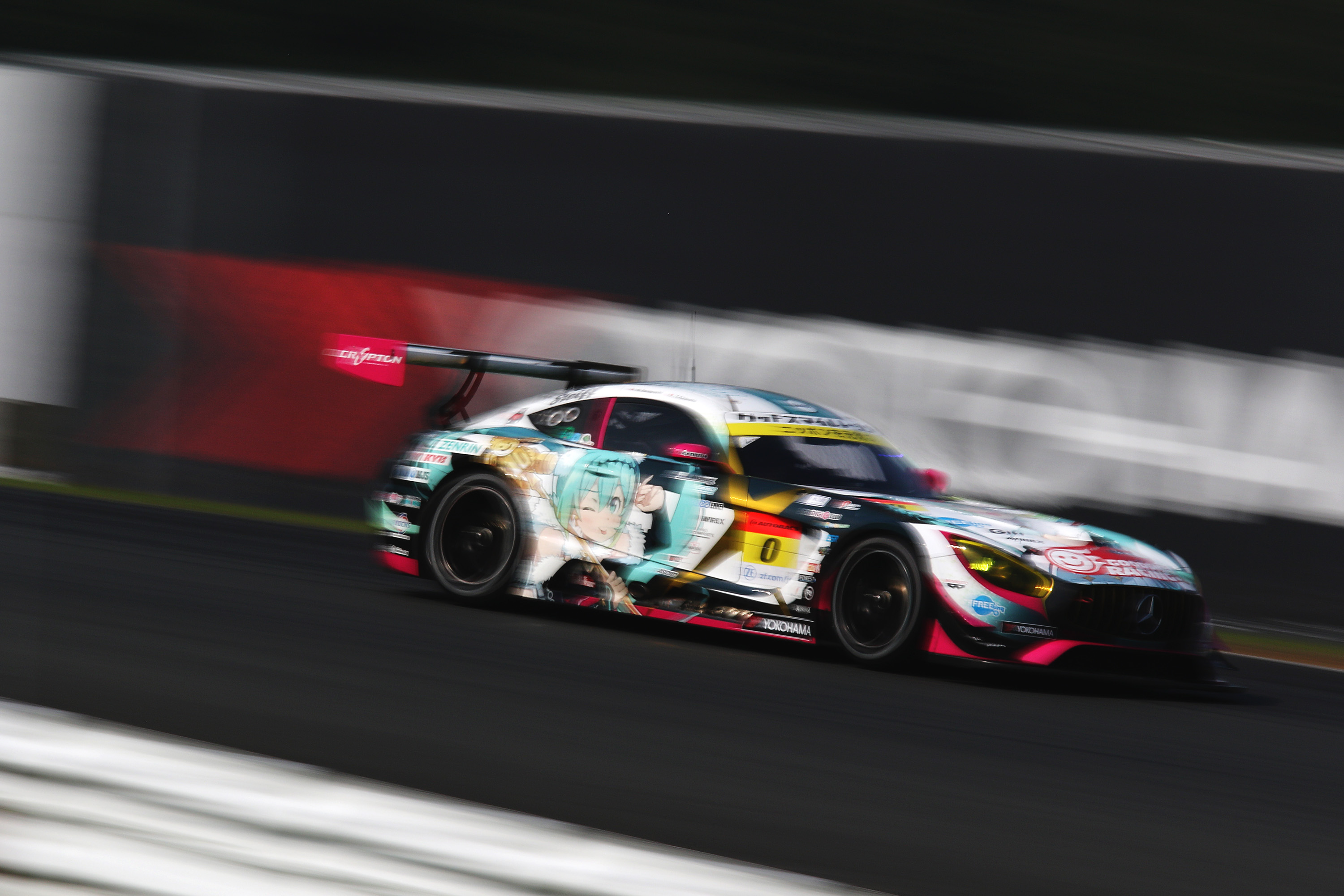 SUPER GT Rd.5 Fuji Speedway- GOODSMILE RACING ＆ TeamUKYO